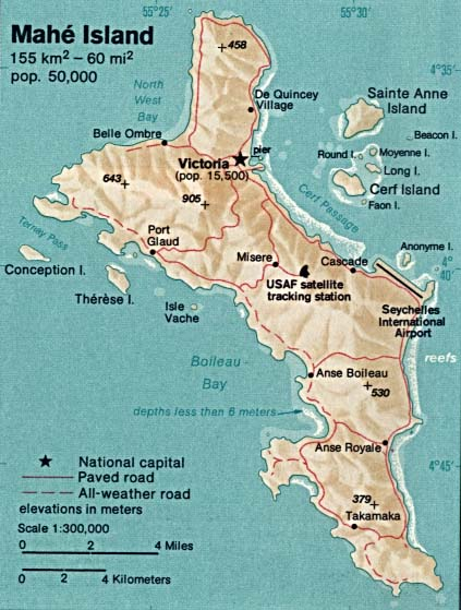 Topographic map of Mahé, main island of the Seychelles.